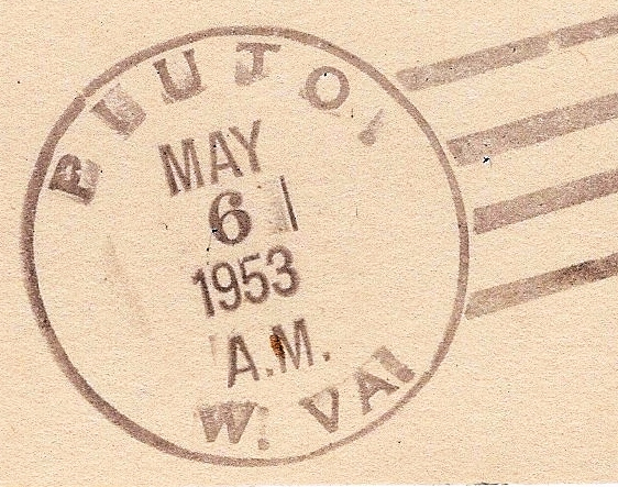 Scanned correspondence, Pluto West Virginia Postmark